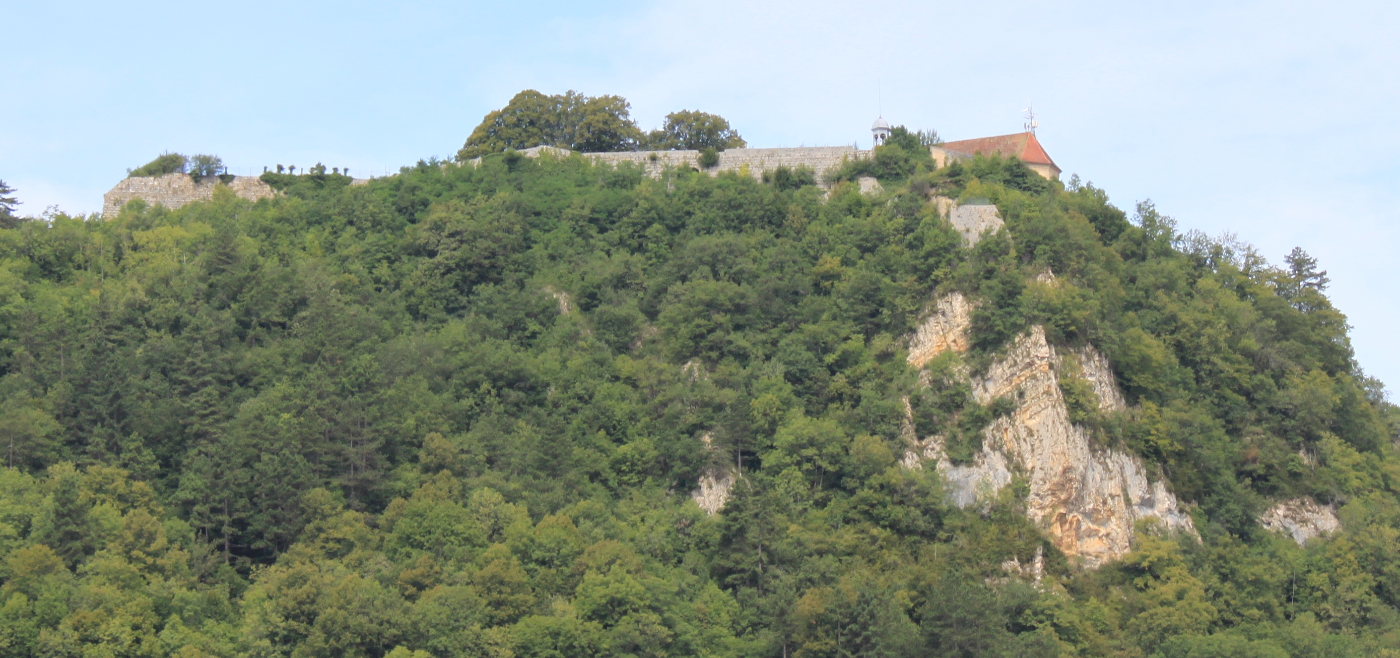 Salins-les-Bains, Jura, France